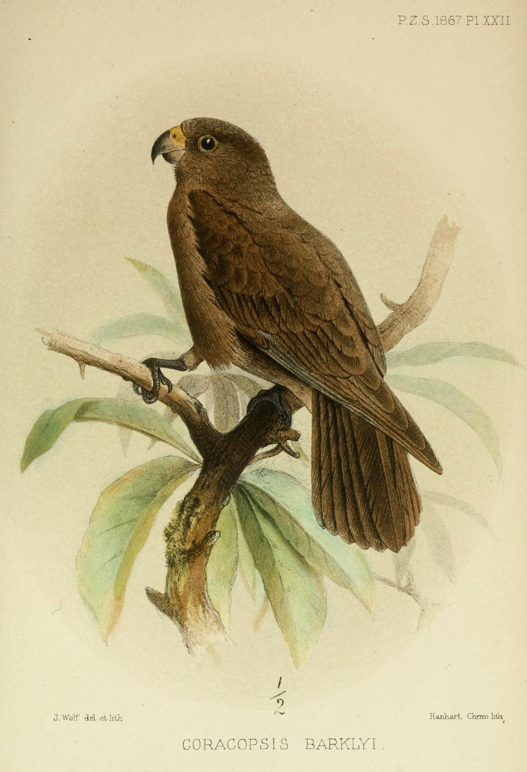 Coracopsis barklyi (=Coracopsis nigra barklyi)